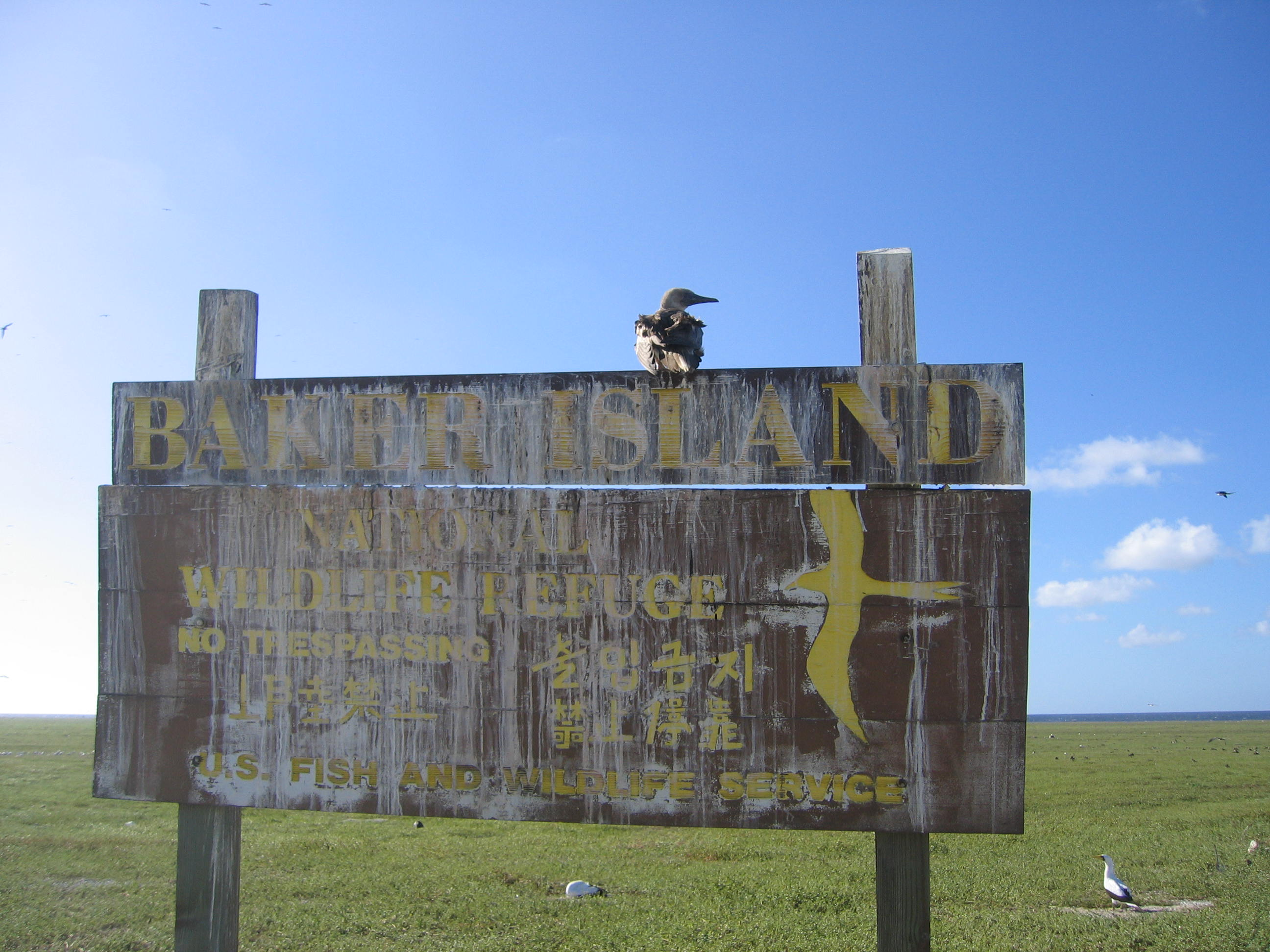 Fish and Wildlife sign on Baker Island, with additional writing in Chinese, Japanese, and Korean. The sign also shows significant fading and wear.